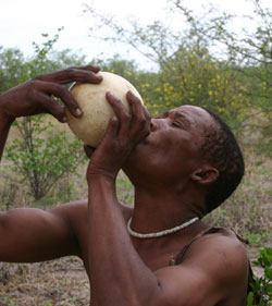 Bushmen Drinking water from Ostrich egg